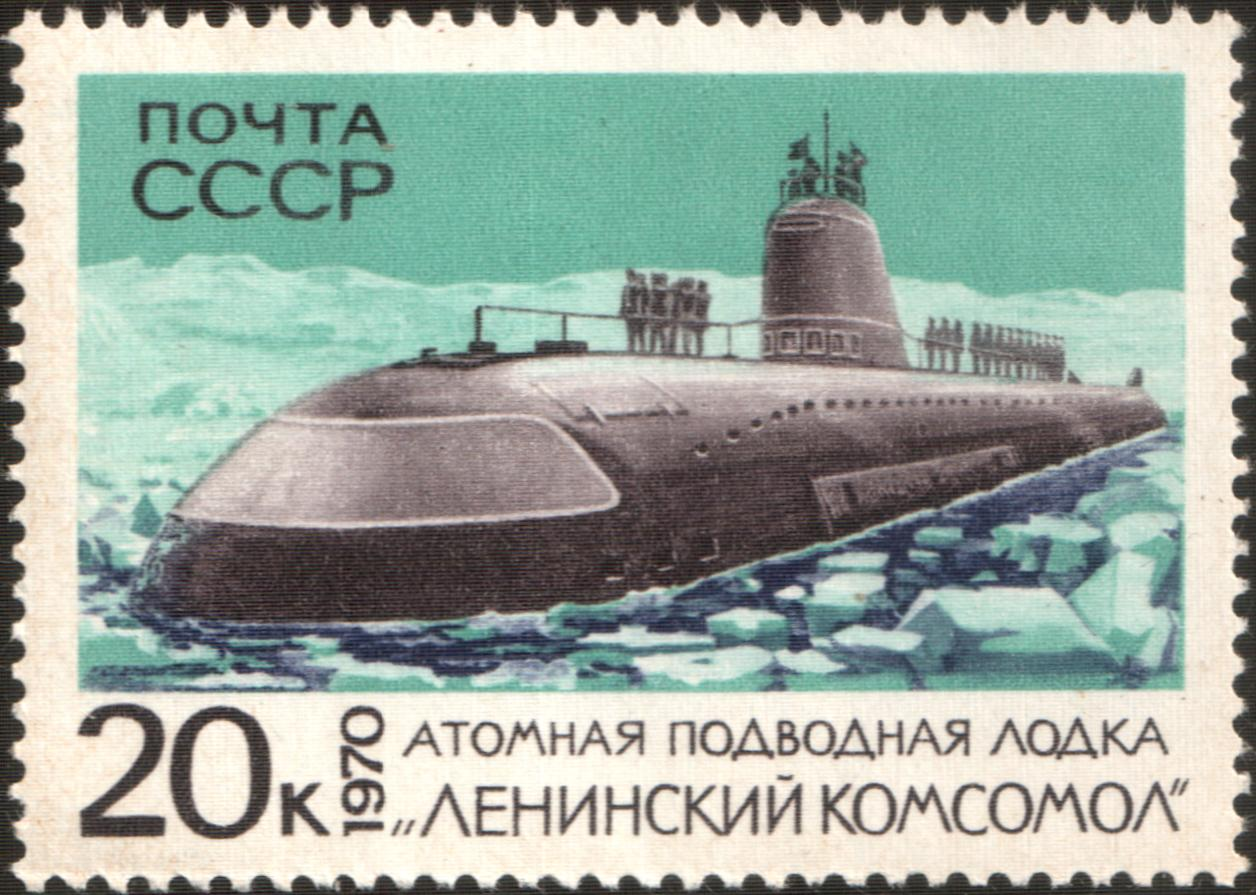 USSR stamp: Nuclear Submarine Leninsky Komsomol. Series: Soviet Warships